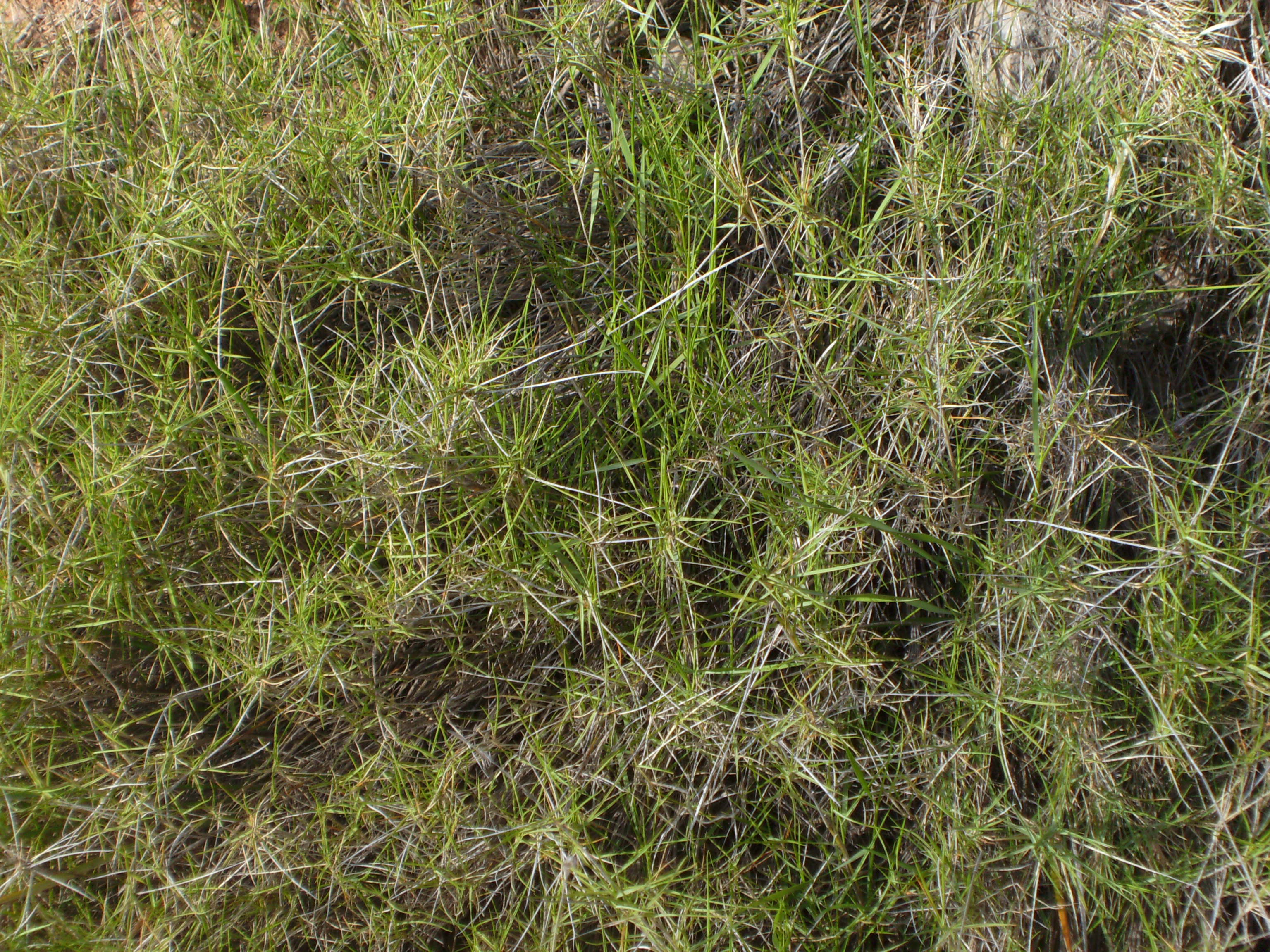 Brachypodium retusum plants, Castelltallat, Catalonia